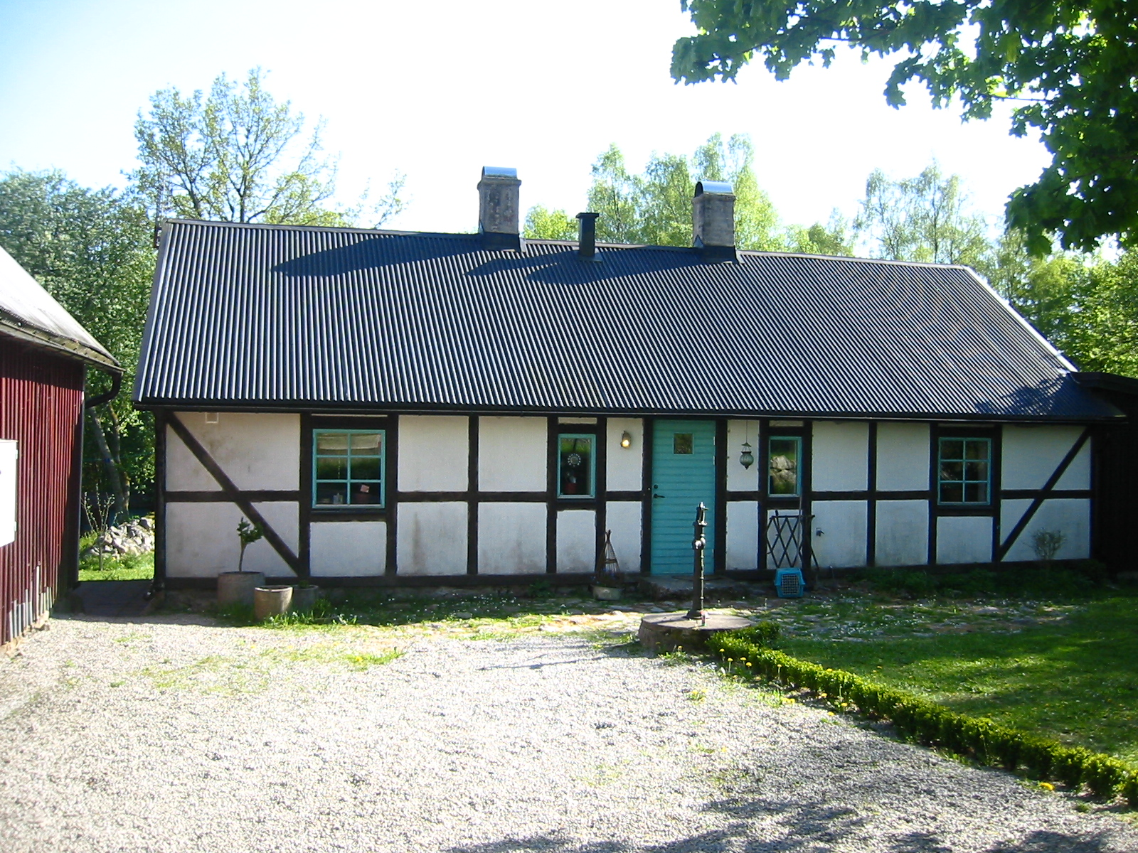 Swedish music-recording studio "Aerosol Grey Machine Studios" in Vallarum, Scane, Sweden